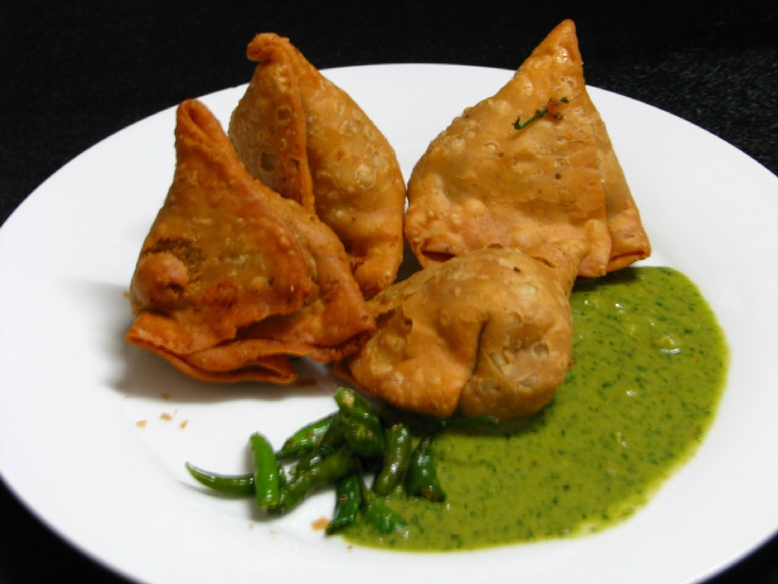 Samosa